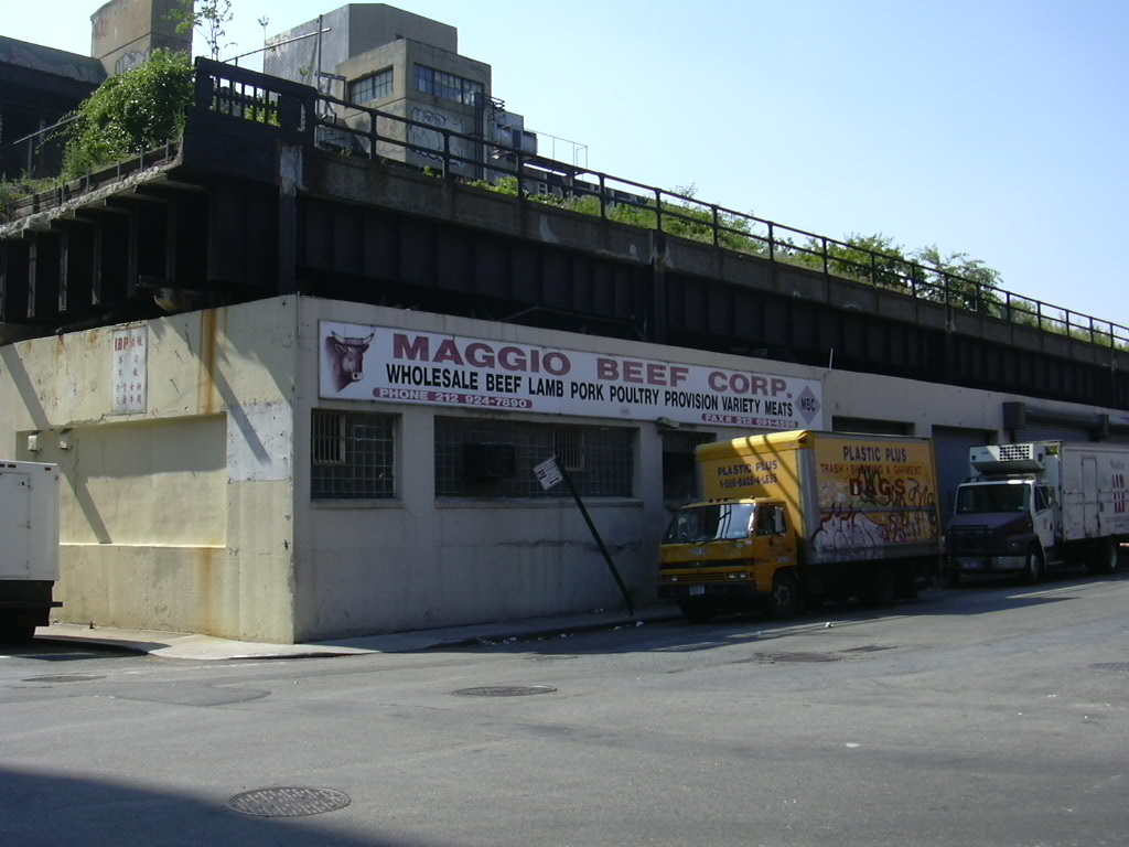 The southern terminus of the High Line (New York City).